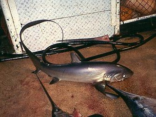 Pelagic thresher shark (Alopias pelagicus)